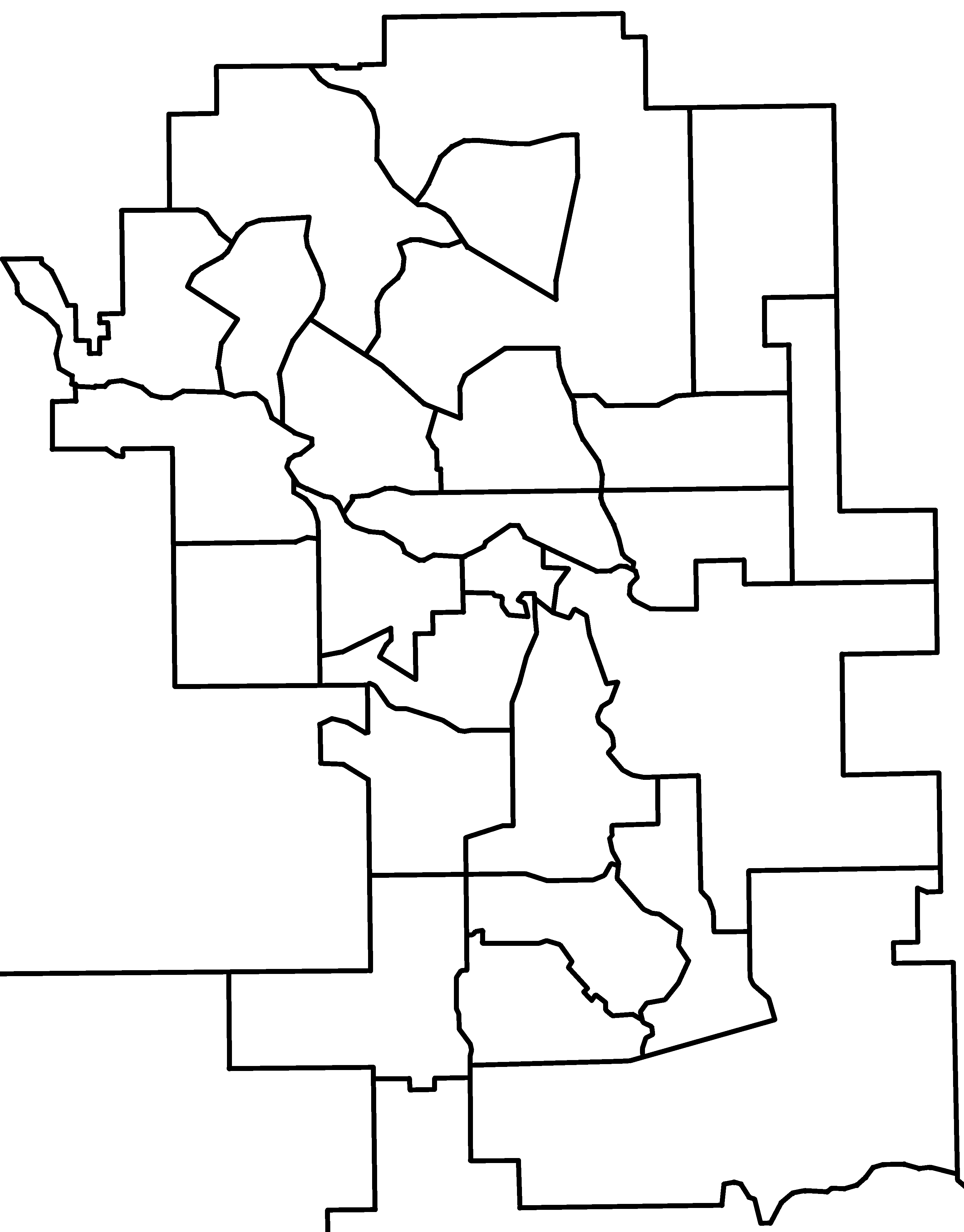 A map of Alberta provincial electoral districts, effective 2010, in the Calgary area.